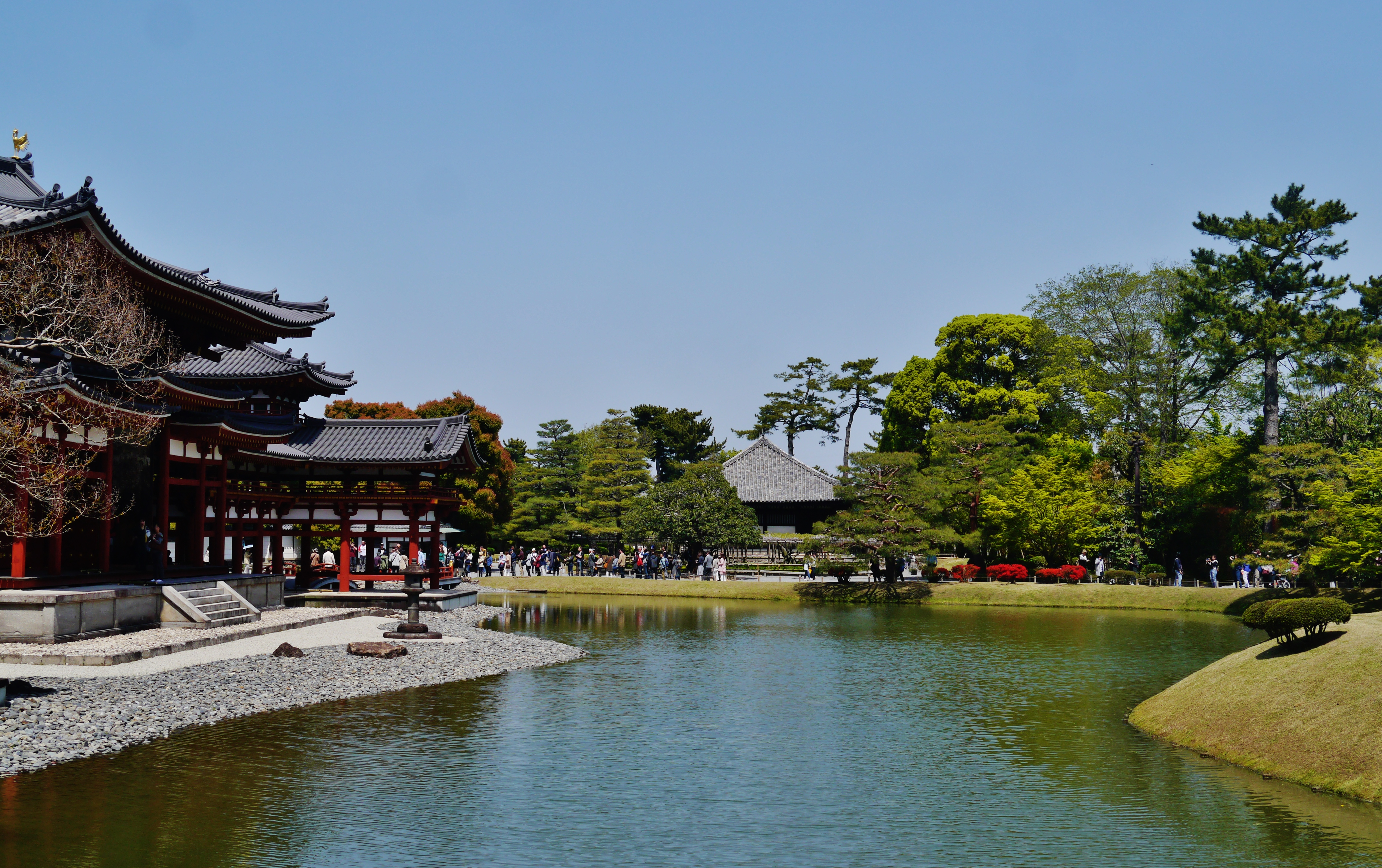 Phoenix Hall & Ajiike Pond of the Byodo Temple, Uji, Kyoto Prefecture, Kinki Region, Japan